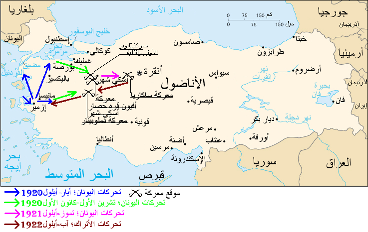 Map of Turkey with troop movements and battle sites added